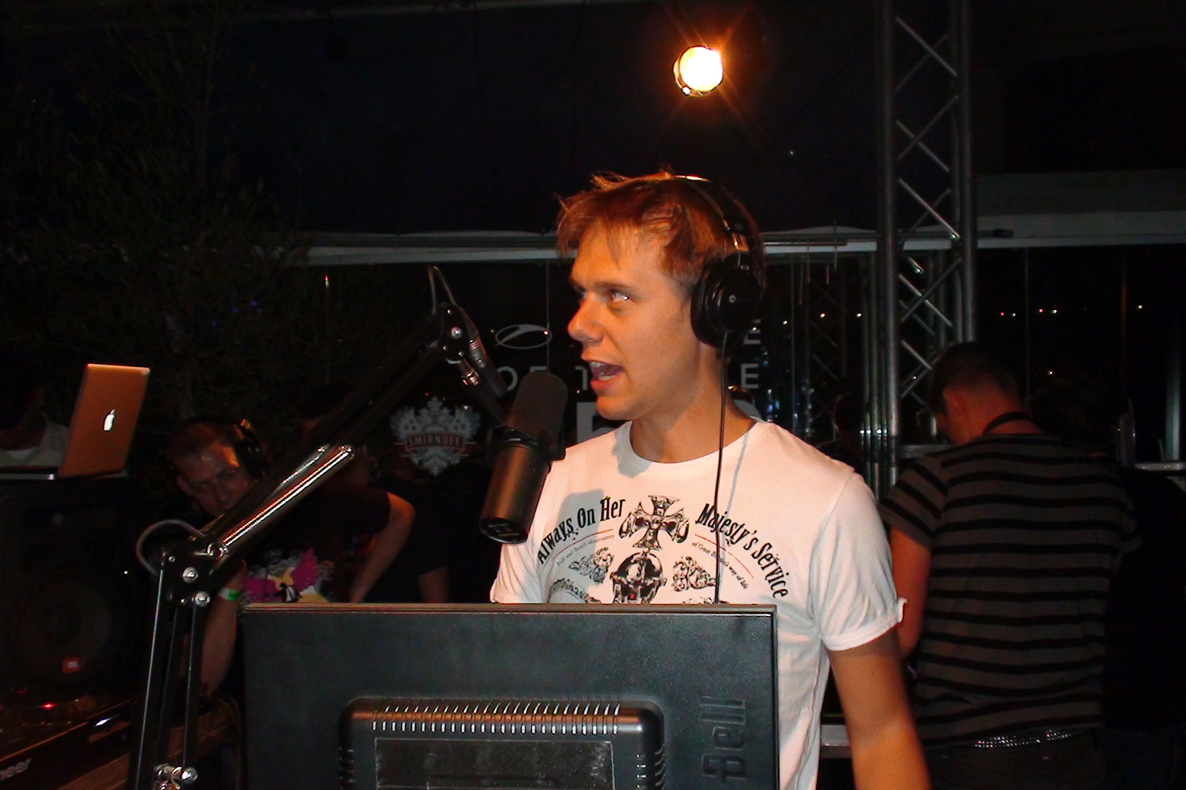 Armin on air.